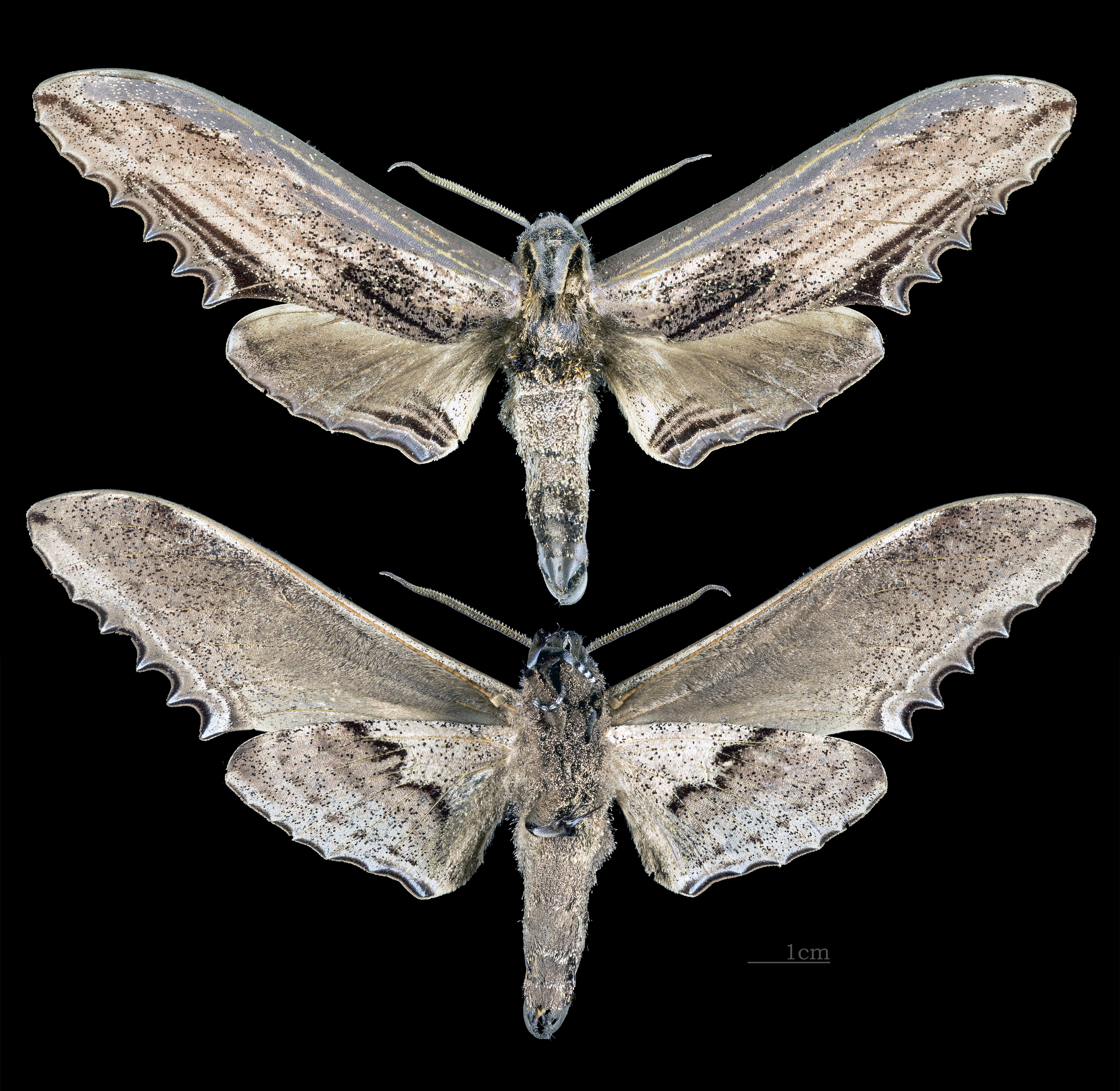 Langia zenzeroides - Two views of same specimen Collection of the Mathematician Laurent Schwartz